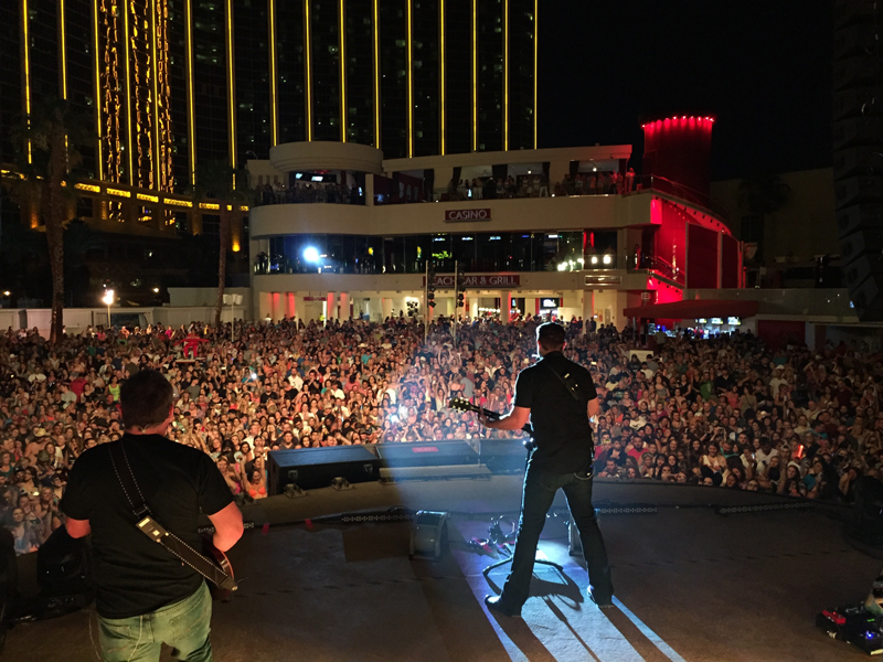 Shot from the stage at Chris Young's Concert on June 6, 2015 at Mandalay Bay Beach, Las Vegas Nevada